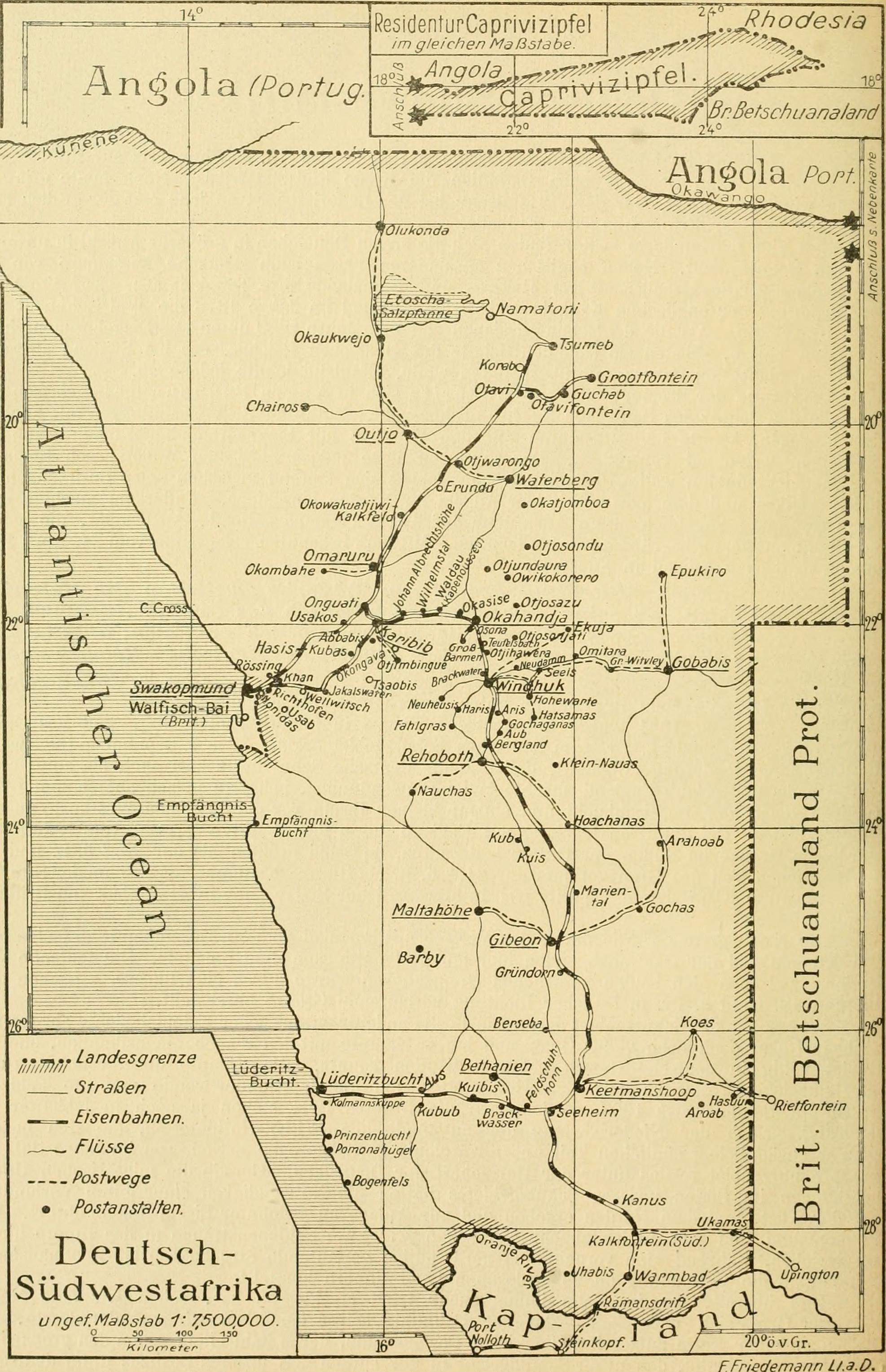 Title: Die postwertzeichen und entwertungen der deutschen postanstalten in den schutzgebieten und im auslande Year: 1921 (1920s) Authors: Friedemann, Albert Subjects: Postage stamps Postmarks Publisher: Leipzig, A. Friedemann Text Appearing Before Image: südlichen Teil unserer Kolonie zurückgezogen hatten, war im Jahre 1907 dasganze Schutzgebiet restlos unter der Herrschaft der Deutschen. Gerade die militärischen Unter-nehmungen im Süden unseres Schutzgebietes hatten die Notwendigkeit einer guten Verbindungmit der Küste und dem Norden ergeben und zur Anlage alisgedehnter Eisenbahnen geführt. VonSwakopmund und von Lüderitzbucht aus sehen wir zwei Schienenstränge in das Innere hineinvorgetrieben, während eine vornehmlich nord-südlich verlaufende Strecke Karibib-Keetmanshoop-Kalkfontein die Verbindung im hochgelegenen Landesinnern herstellt. Und überall, wo die Bahn immer mehr Land erschlossen hat, sehen wir eine Mengegrößerer Orte sich entwickeln. An der Bahnlinie selbst bemerken wir auf der Karte, wiePerlen an einer Kette aufgereiht, die vielen Postanstalten, deren Zahl allein schon den großartigenAufschwung andeutet, den unser Schutzgebiet in der kurzen Zeit unseres Besitzes unter deutscherLeitung genommen hatte. 10* 148 Text Appearing After Image: Deutsch-Südwestafrika ungef.Maßstab 1- 7,500,000. F Friedemann Ll.a.i 141)